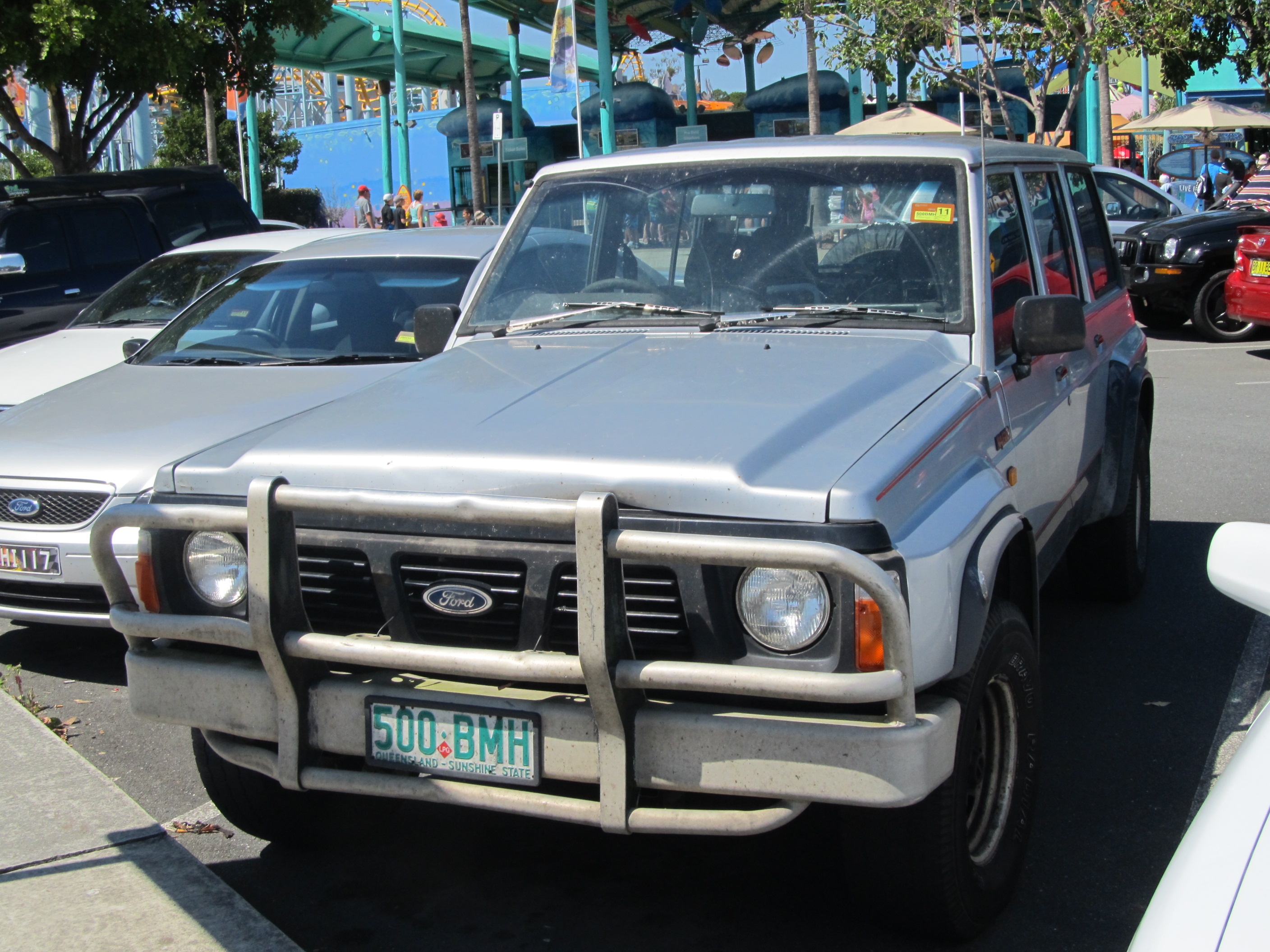 1992 Ford Maverick. Here's another result of the weird Australian 'Button Plan' - the Ford Maverick! This is essentially a Nissan Patrol with Ford badges slapped on - I don't even think the grille was changed! Seen in the Dreamworld car park on the Gold Coast.